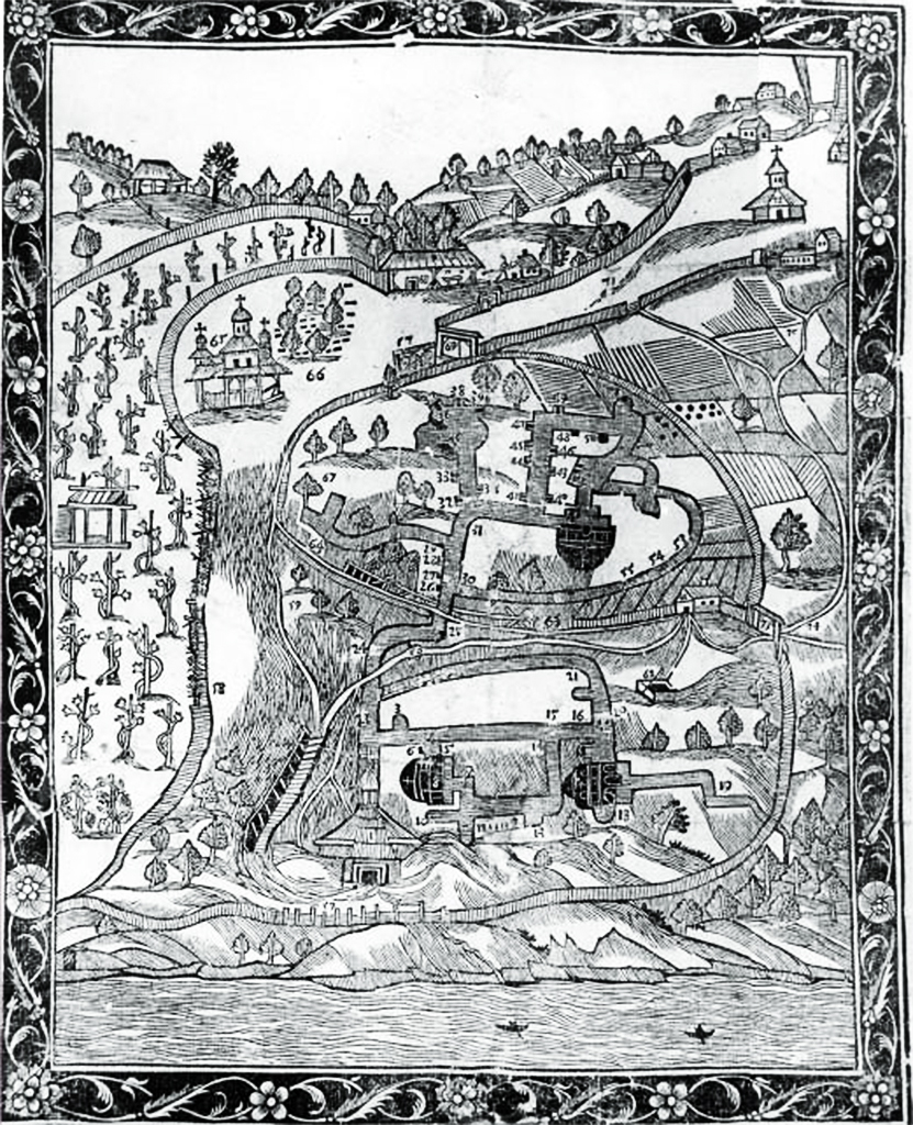 Kiev Pechersk Lavra. Athanasius Kalnofoysky "Teraturgema", 1638.